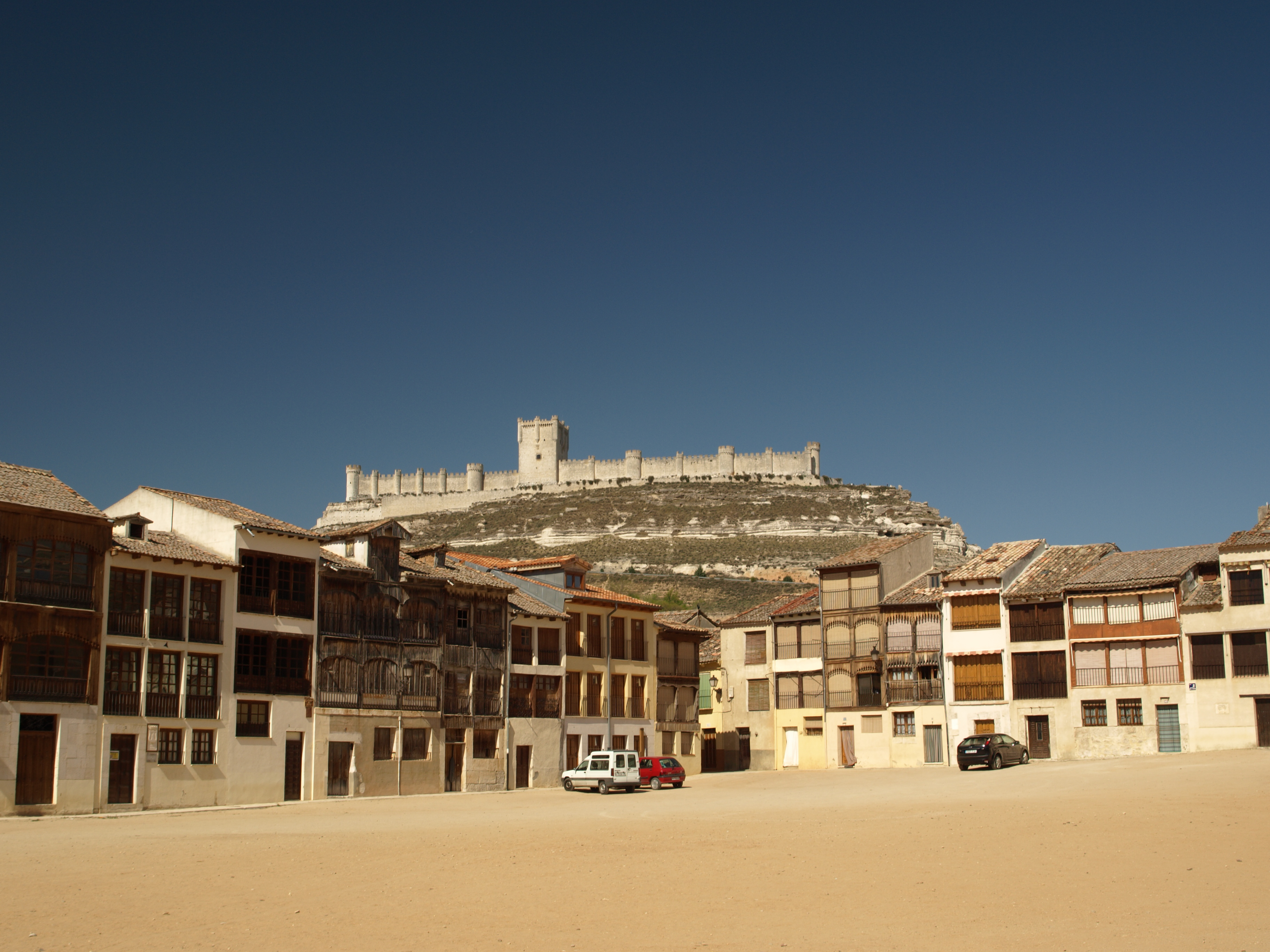 Peñafiel - Castle and Plaza del Coso